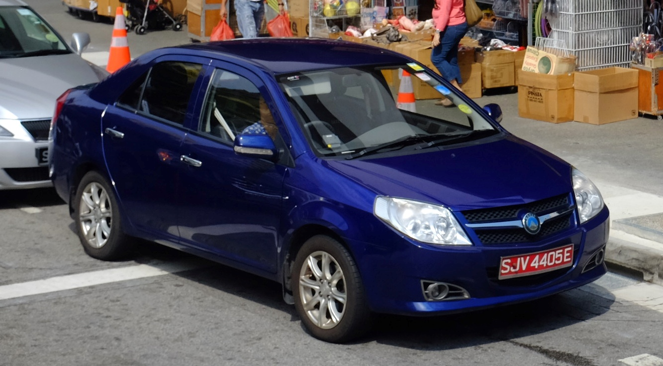 2009 Geely MK in Singapore. Designed in China , Assembled in Indonesia